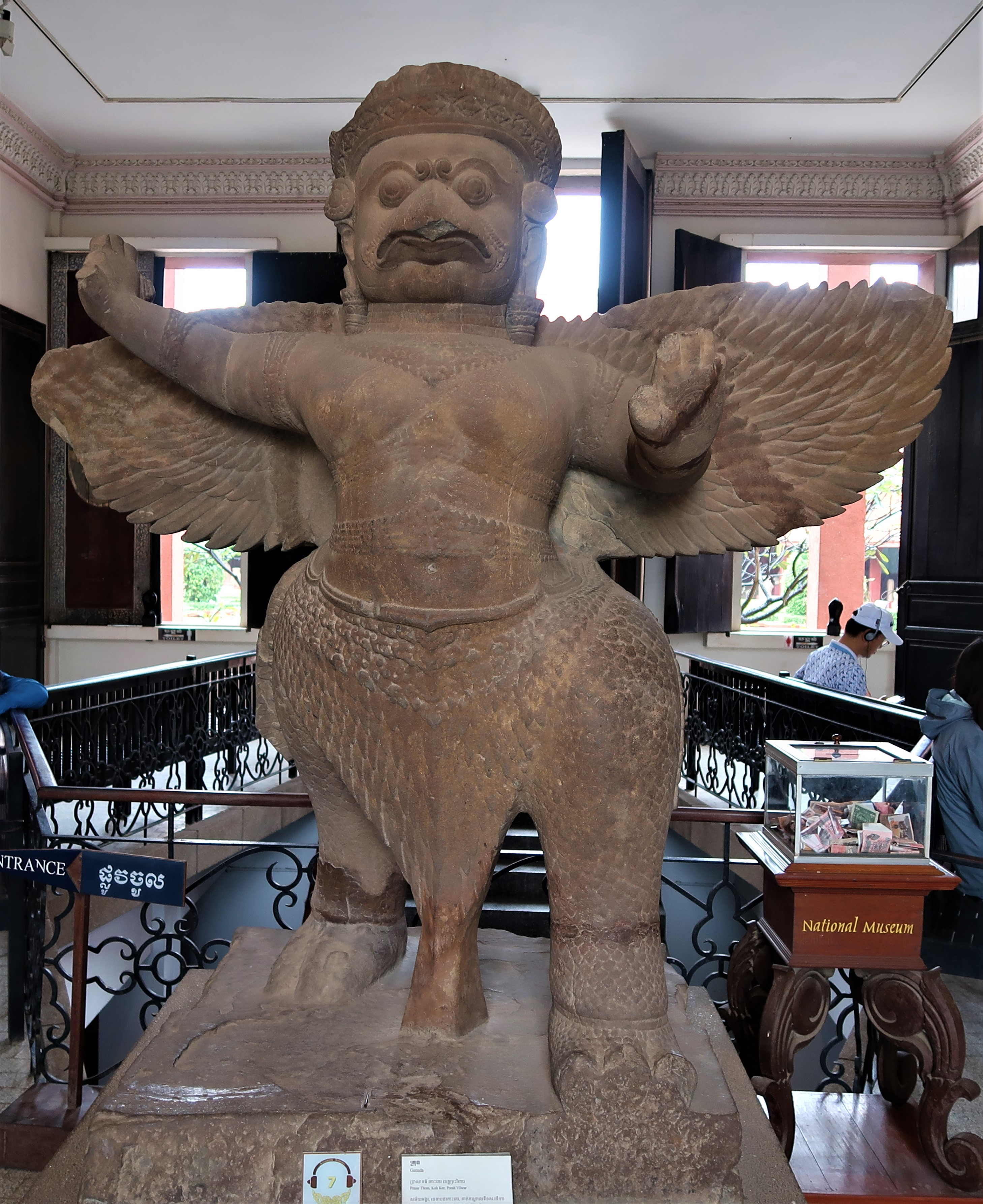 Garuda in Koh Ker style. Made of sandstone, the statue is from first half of 10th century (Angkor period). Statue on display at the National Museum of Cambodia in Phnom Penh.